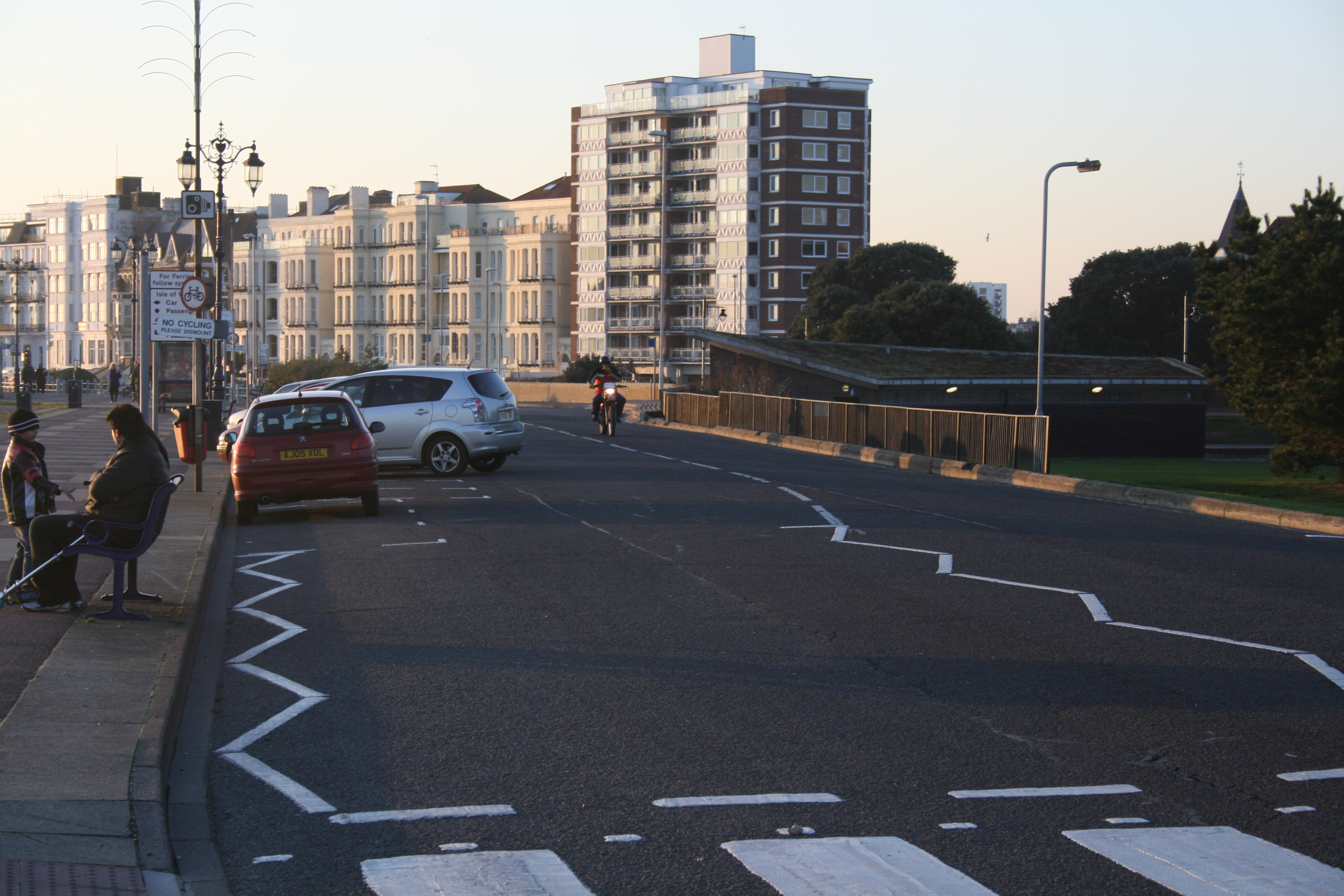 Echelon Parking on the Southsea seafront of Portsmouth.